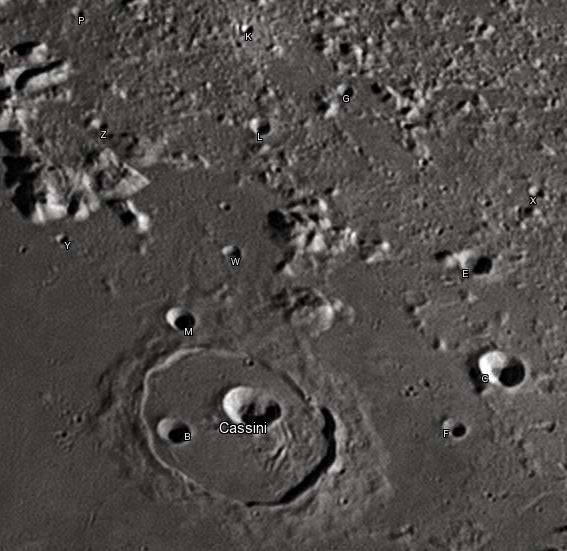 Cassini lunar crater as seen from Earth with satellite craters labeled